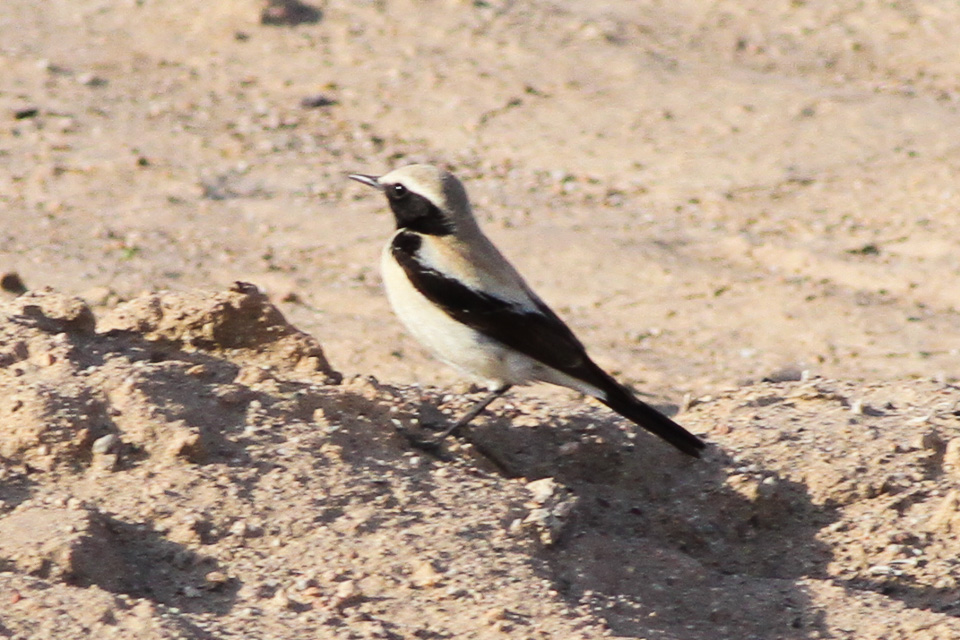 Journey Almaty to Charyn River